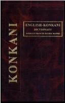 An English-Konkani Dictionary (2001) by Angelus Francis Xavier Maffei, reprint of the original published in 1883.